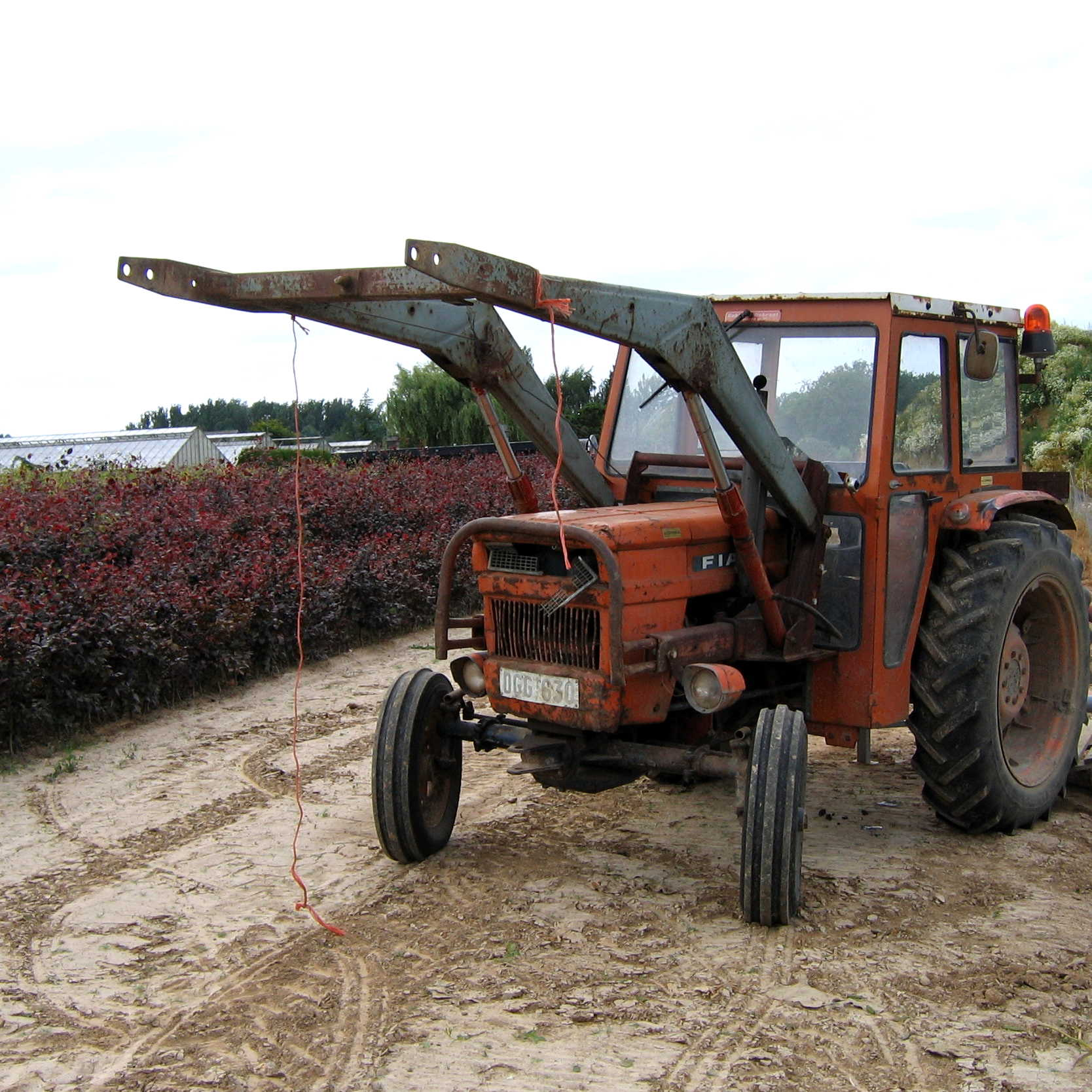 A picture of a older model tractor. The tractor brand is Fiat and was originally without cabin. The cabin you see on the tractor was hand-welded untop of it. Similar older models are still used frequently in Eastern Europe.